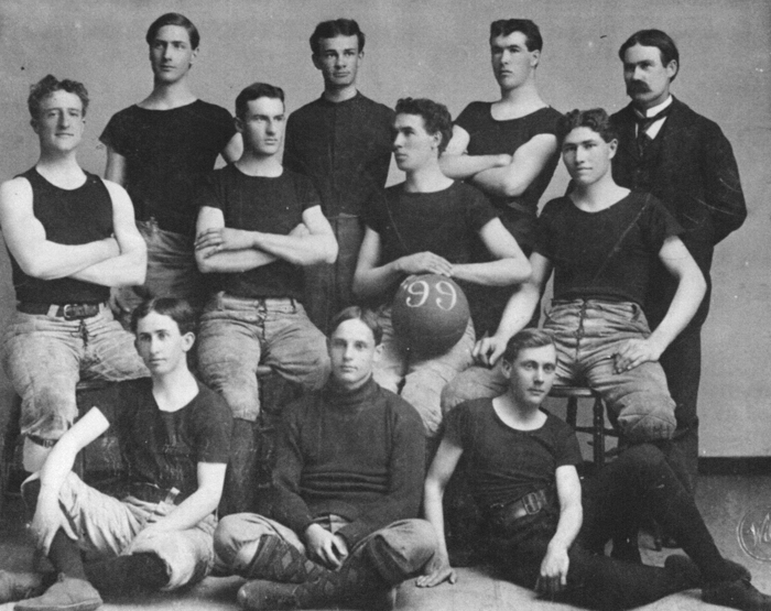 First basketball team at the University of Kansas, 1899. Coach James Naismith is on the far right. Walter is 3rd from the left, back row. Walter's brother, William, and team captain, is 3rd from the left, middle row.